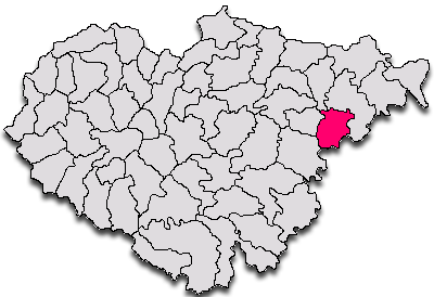 Map Salaj County Romania